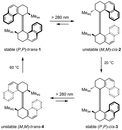 Rotary cycle of the first-generation light-driven rotary molecular motor, Feringa 1999